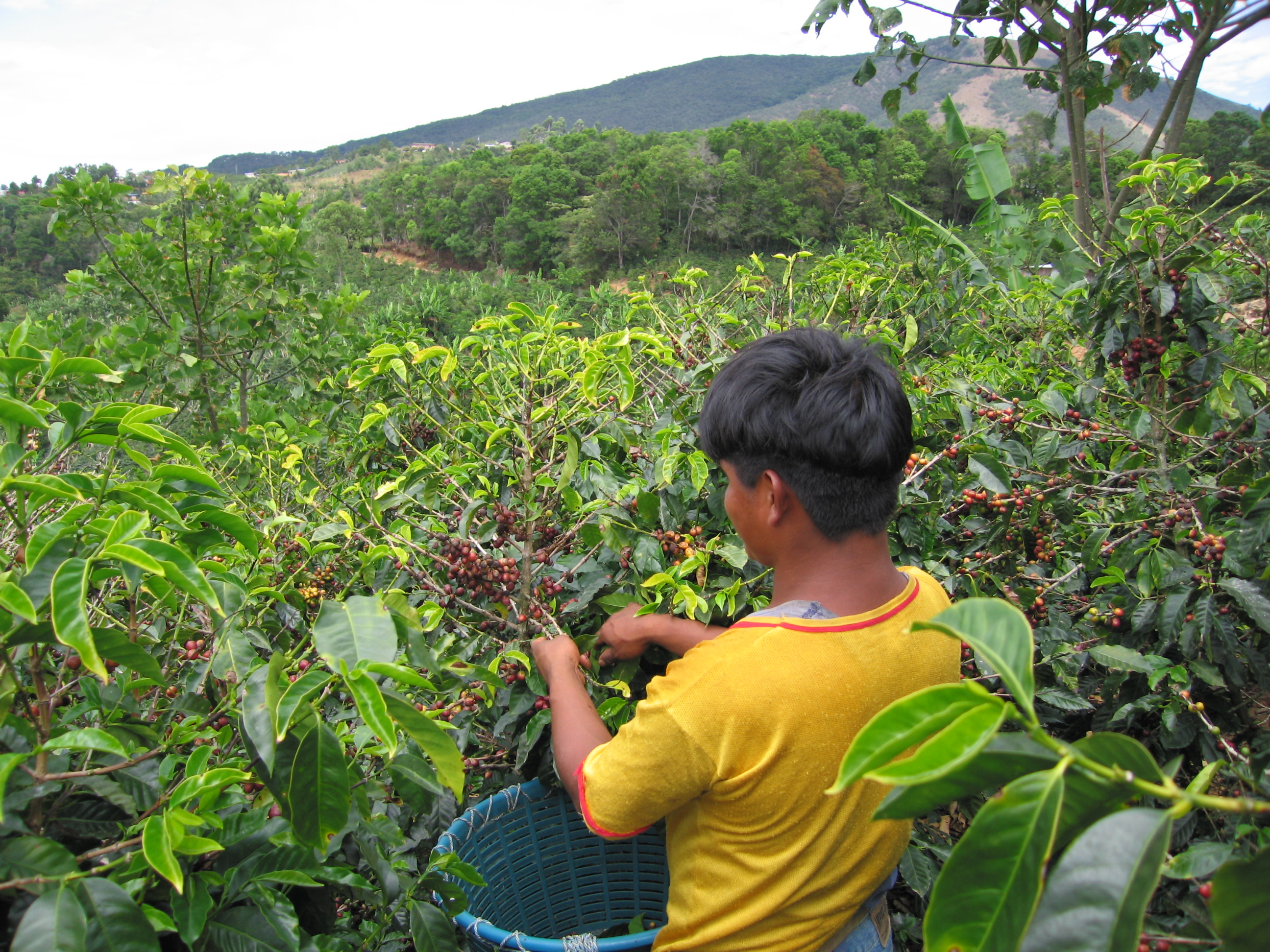 Local coffee picker in a farm near San Marcos Tarrazu, Costa Rica